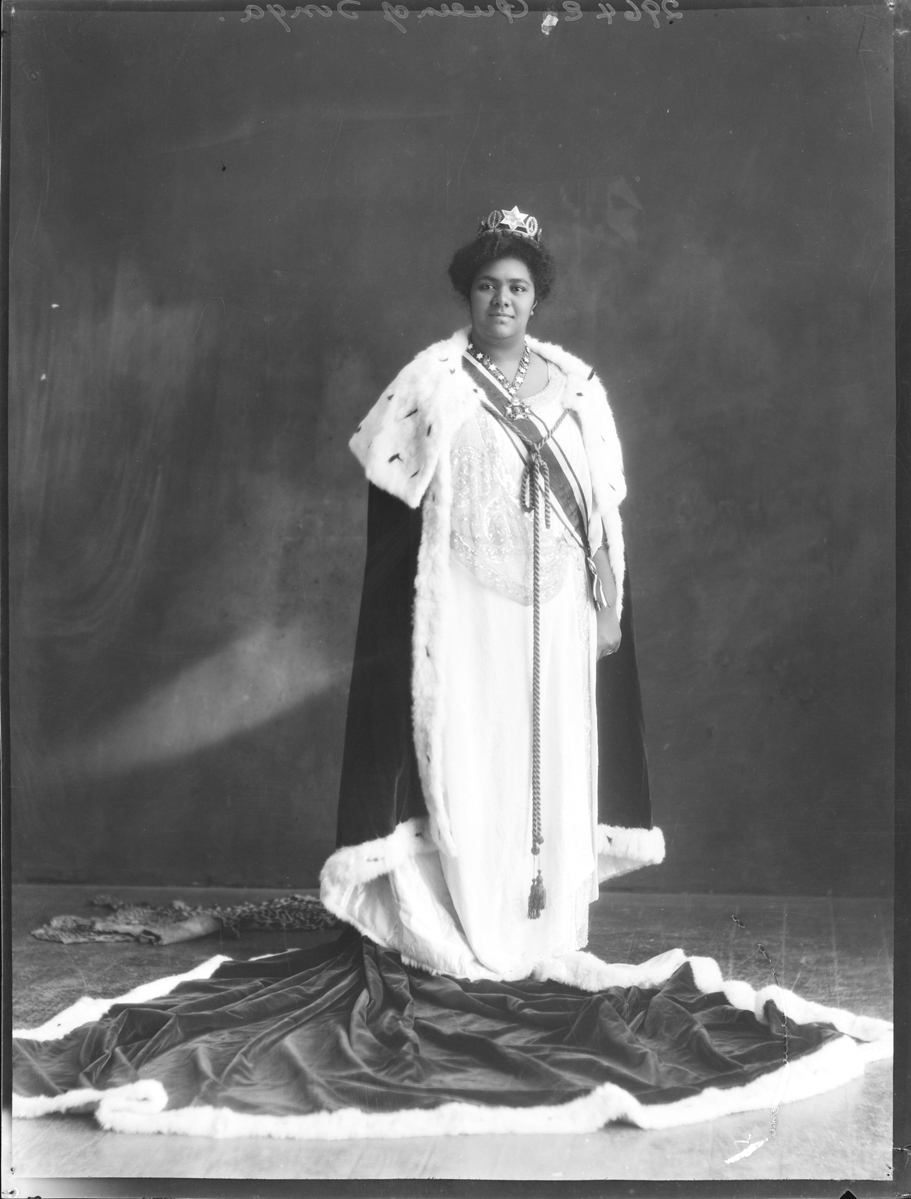 Salote Tupou III in her coronation robe. Full length portrait of the Queen of Tonga wearing a crown, necklace, light coloured dress, dark coloured long velvet cloak edged in fur.